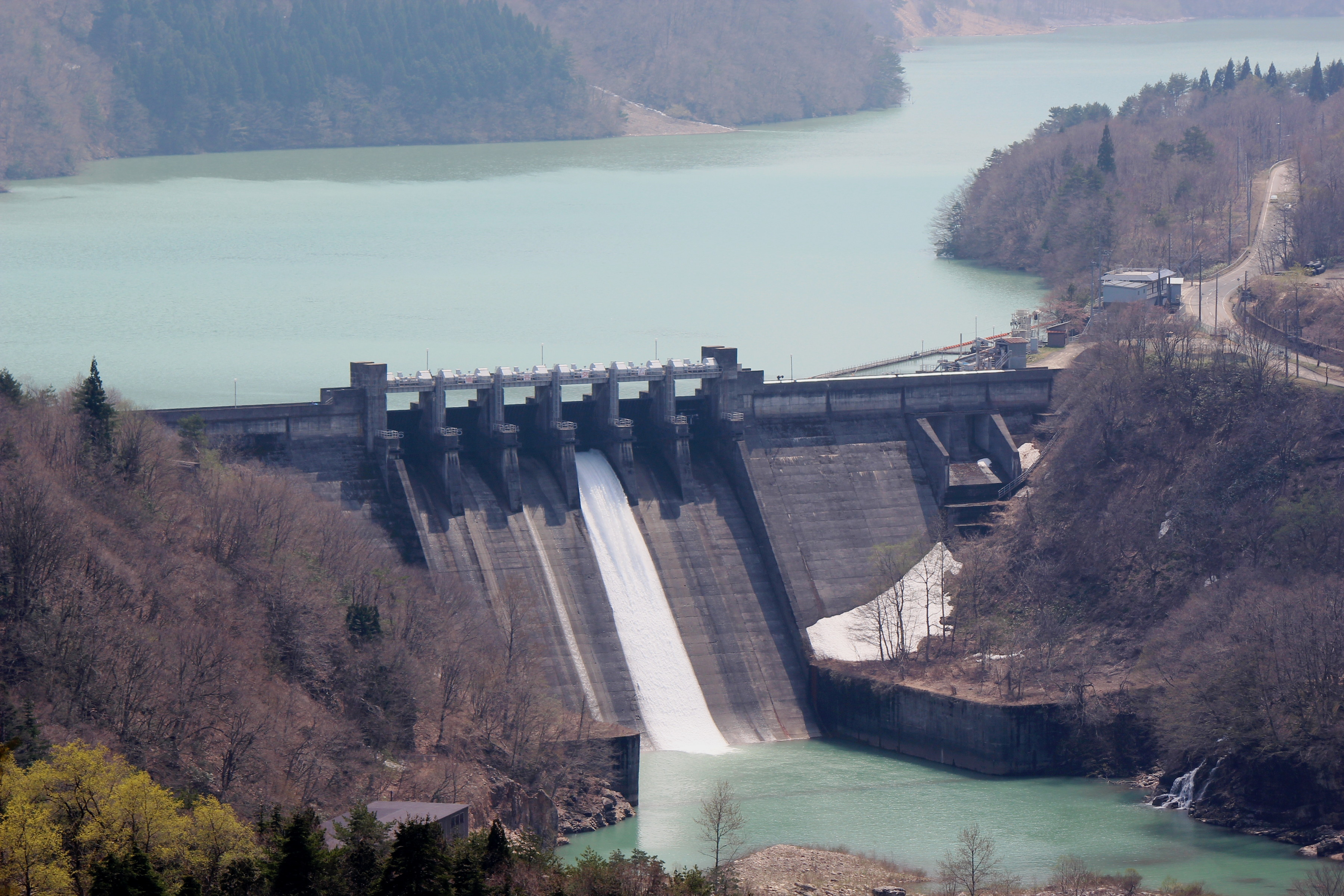 Hatogaya Dam and lake